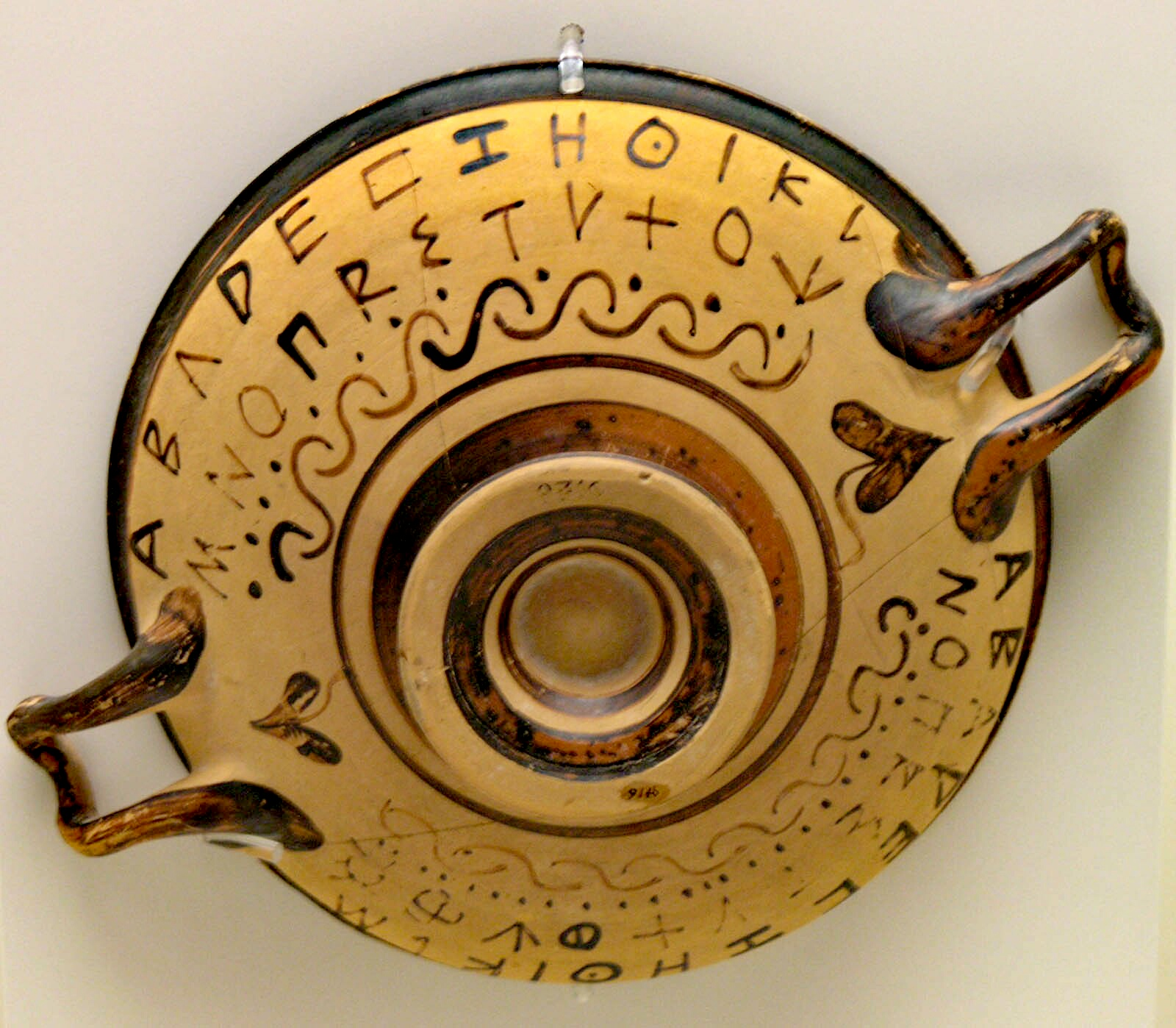 Early Greek alphabet painted on the body of an Attic black-figure cup.